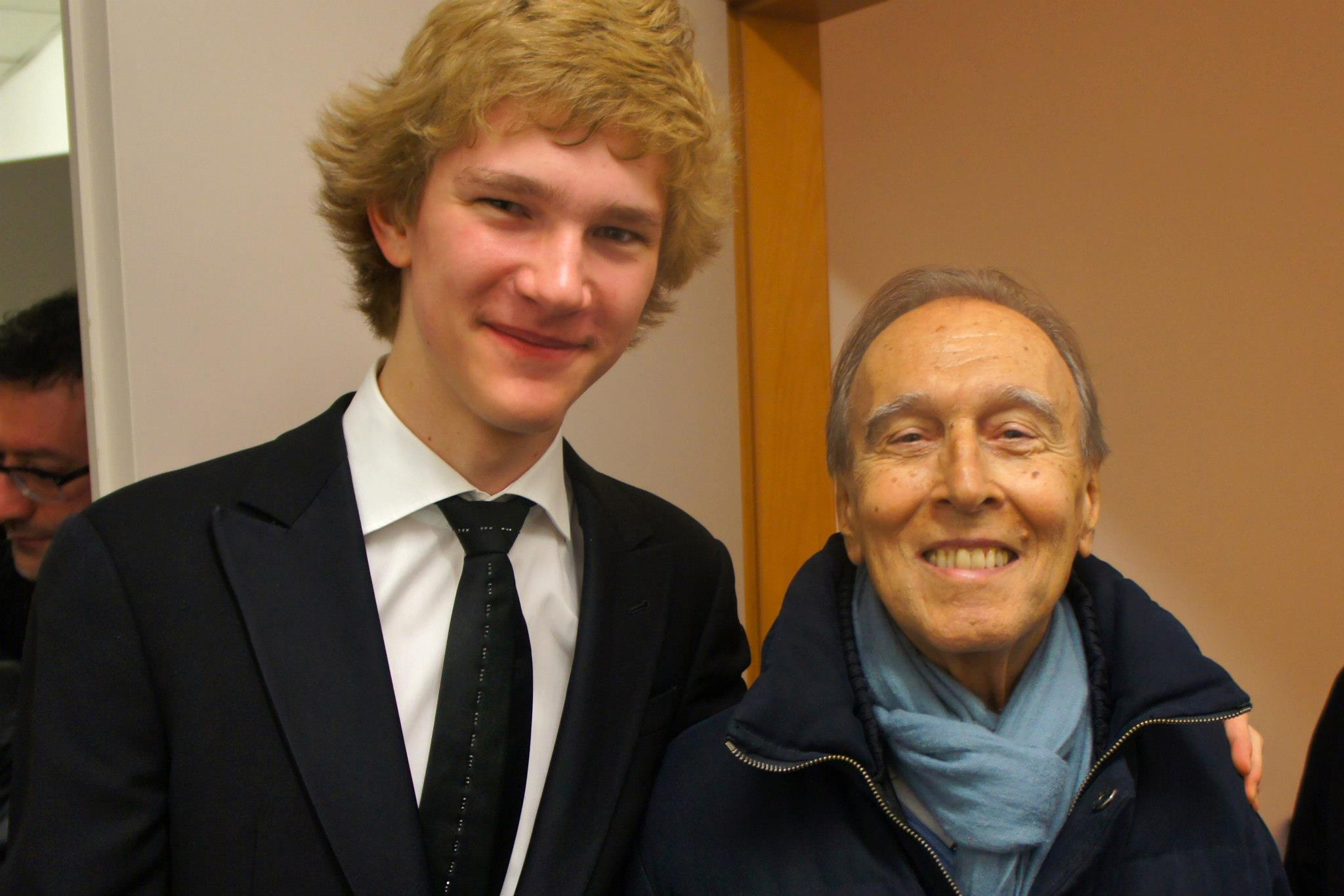 Jan Lisiecki with Maestro Claudio Abbado in Bologna, Italy in 2013